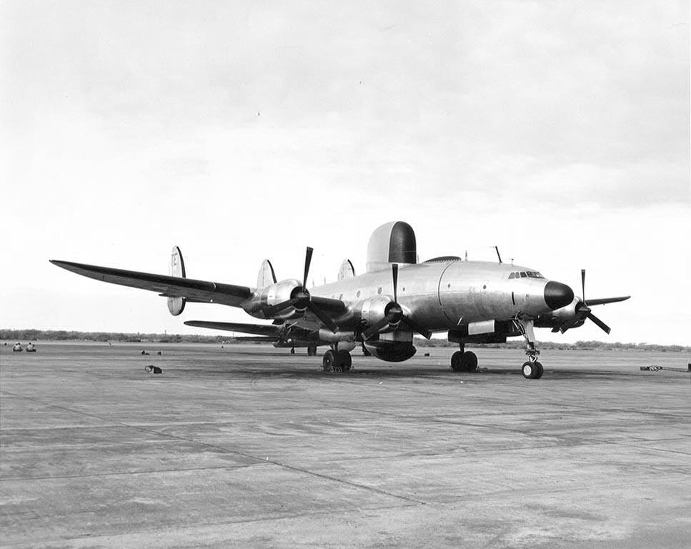 The second U.S. Navy Lockheed WV-1 Warning Star (BuNo 124438) of airborne early warning squadron VW-1 Typhoon Trackers at Naval Air Station Barbers Point, Oahu, Hawaii (USA), in December 1952. The WV-1 was delivered for training purposes before the delivery of the production WV-2. Note the smaller radome of the APS-20 radar below the fuselage compared to the VW-2 (after 1962 EC-121K).